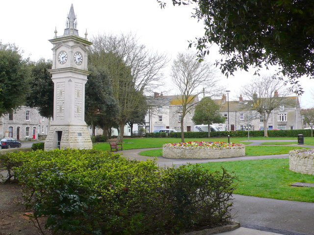 Easton, Portland The clock tower in the small garden square at the centre of the town